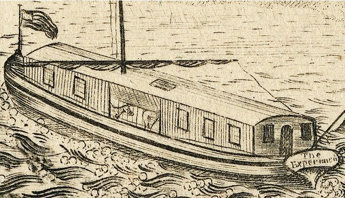 1808 sketch of a horse powered paddle-boat done by William Hamlin.